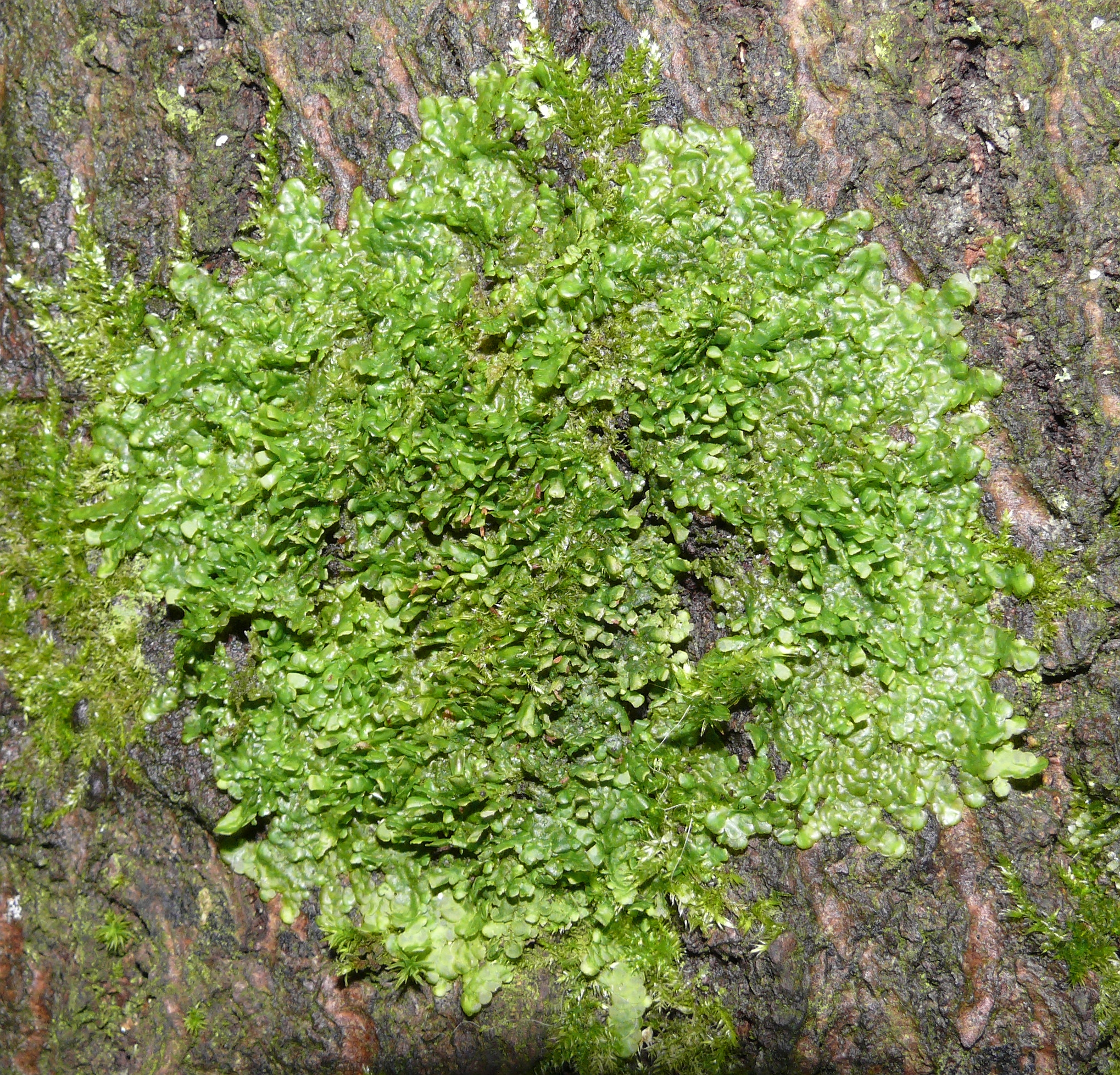 Radula complanata, Hohenlohe, Germany